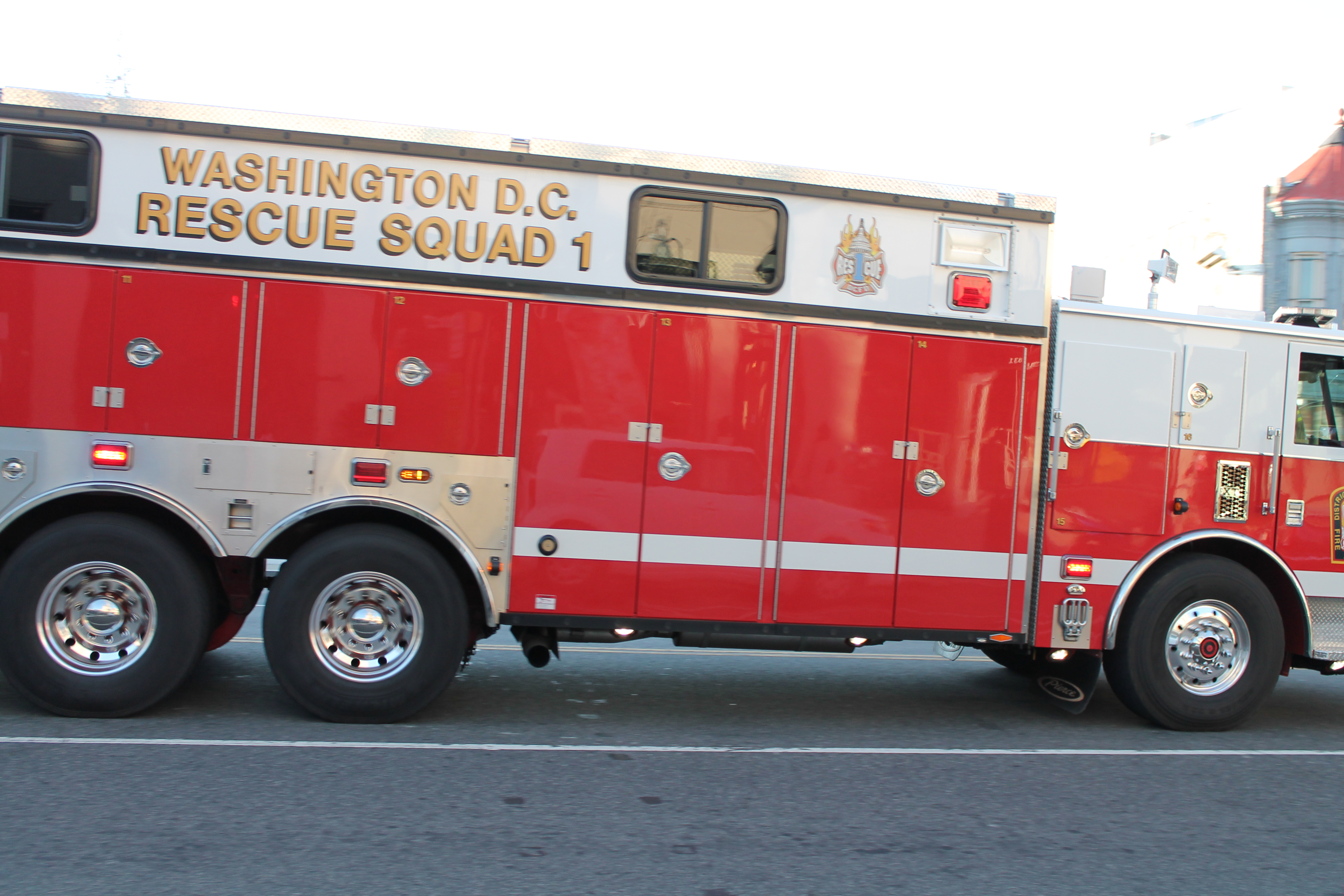 Rescue Squad 1 of the District of Columbia Fire and Emergency Medical Services Department (DCFEMS, also known as DCFD) in Washington, D.C., in the United States. "Rescue Squads" are support units which respond along with fire engines and ladder trucks, and occasionally ambulances, in cases of major fires or emergencies.